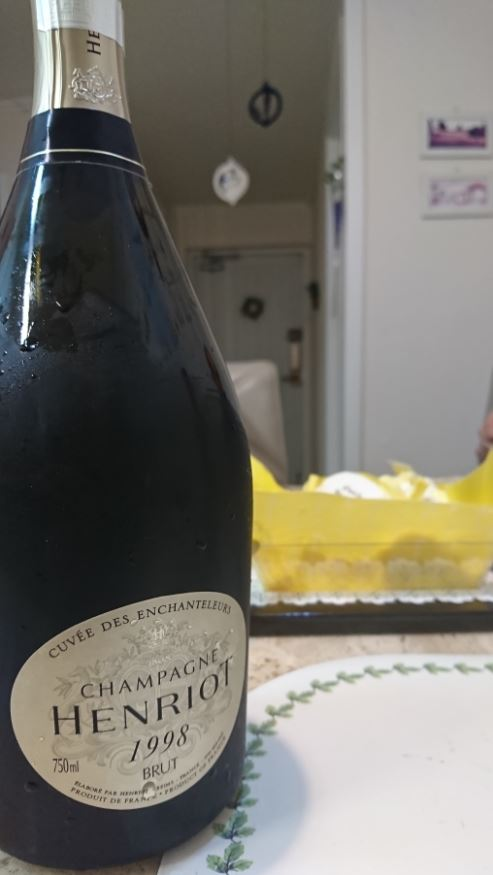 Henriot Wine